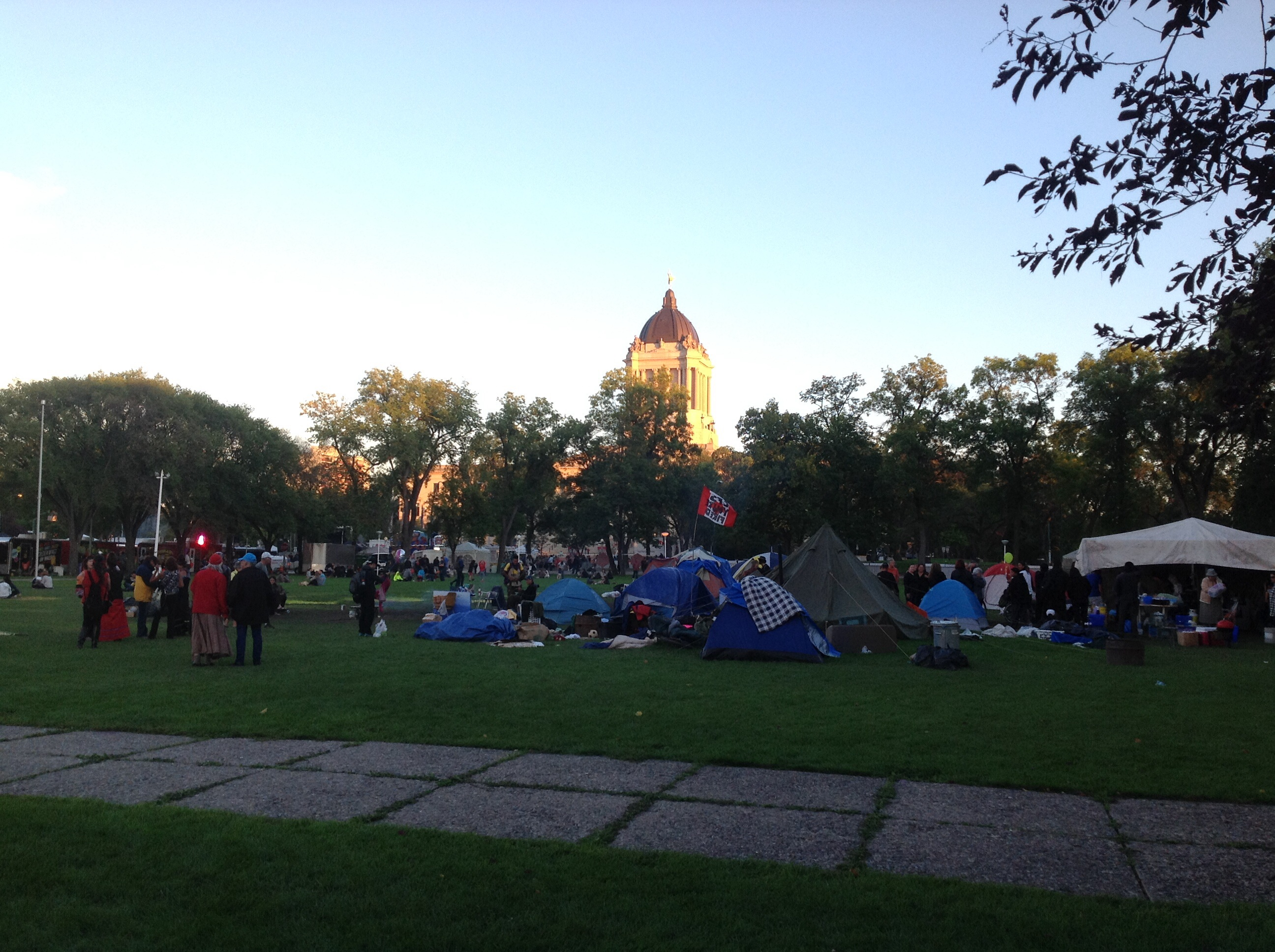 protests by indigenous people in Winnipeg, September 2014.